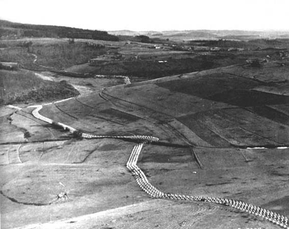 Dragon's teeth near Brandscheid. The wooded section at upper left is the edge of the Schnee Eifel.